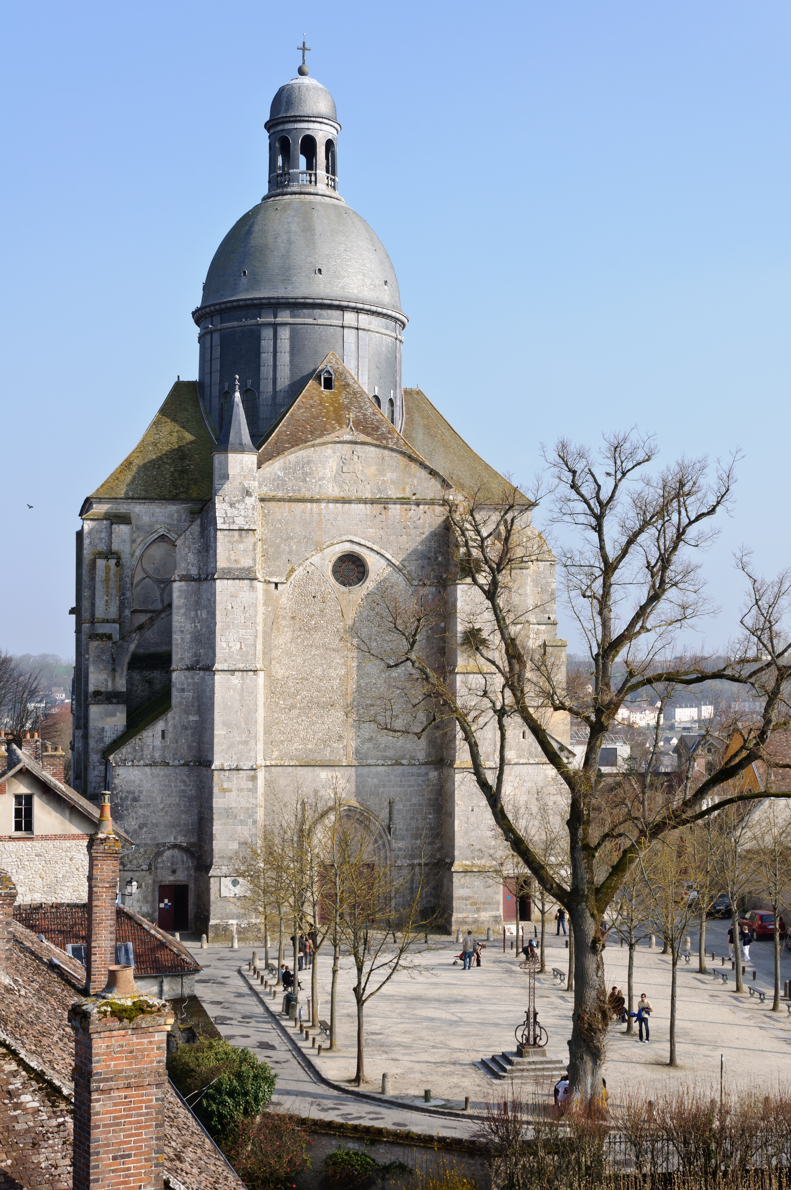 Provins, Seine-et-Marne, France: Saint Quiriace Collegiate Church in the Upper Town. .